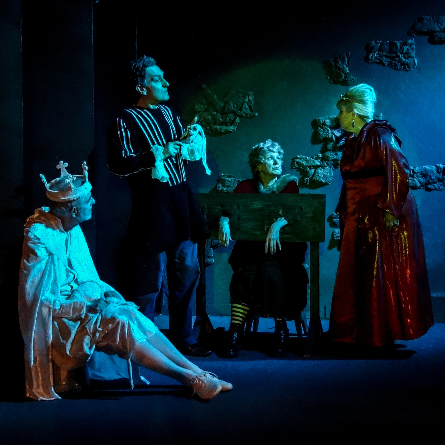 Wyrd Sisters 22-24th Feb 2018